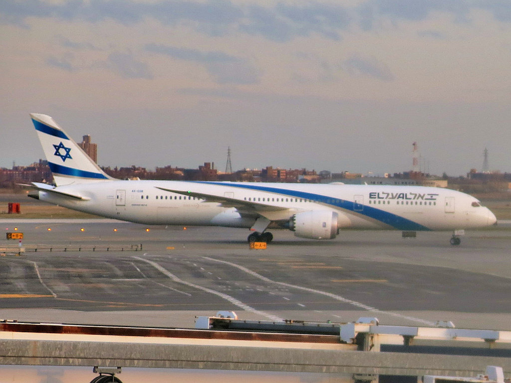 Several months before El Al Dreamliner service was slated to begin to JFK Airport, an El Al Boeing 787-9 Dreamliner is taxiing to its gate after arriving as Flight LY21.